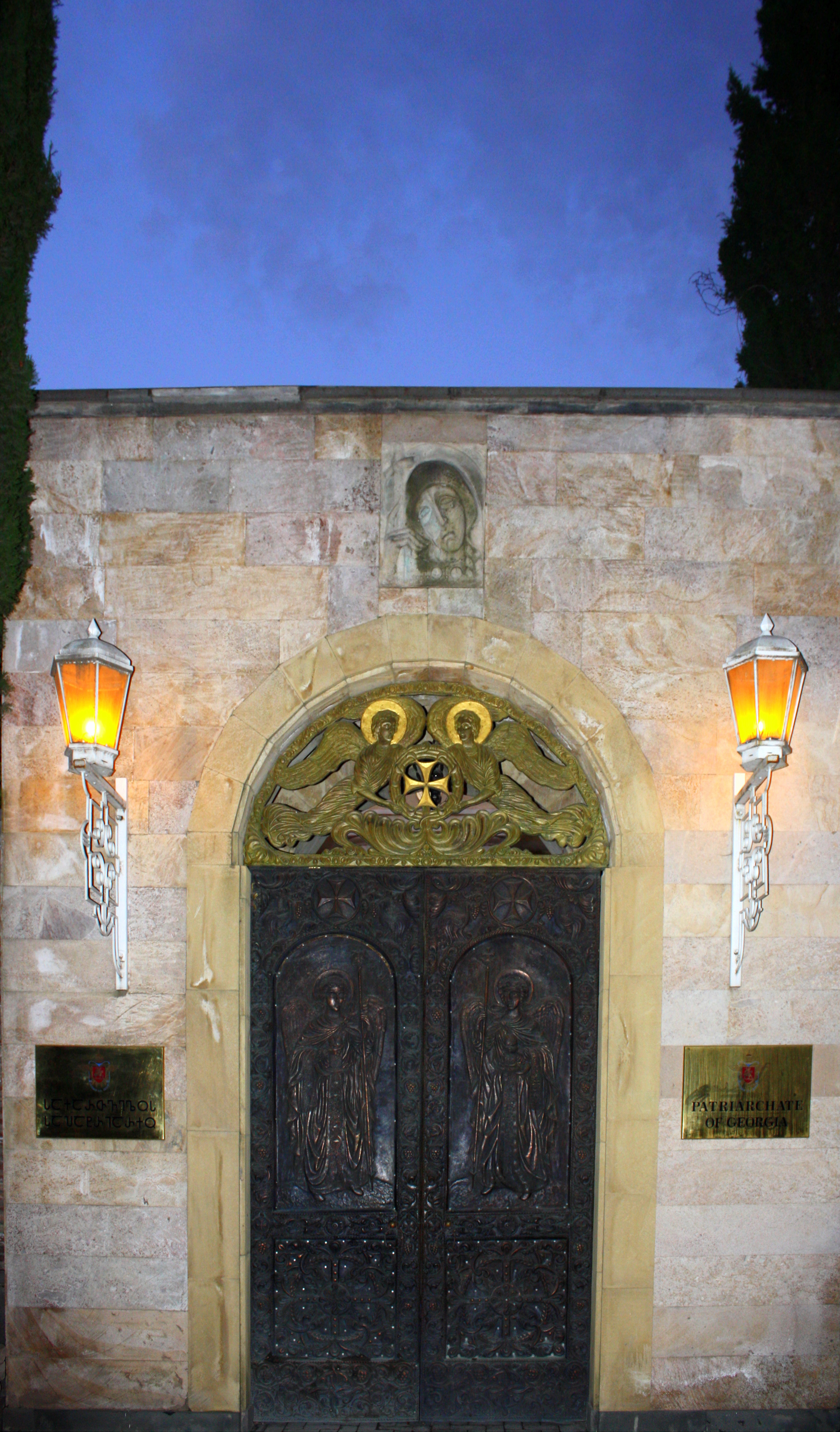 The central Gate of Georgian Patriarchy